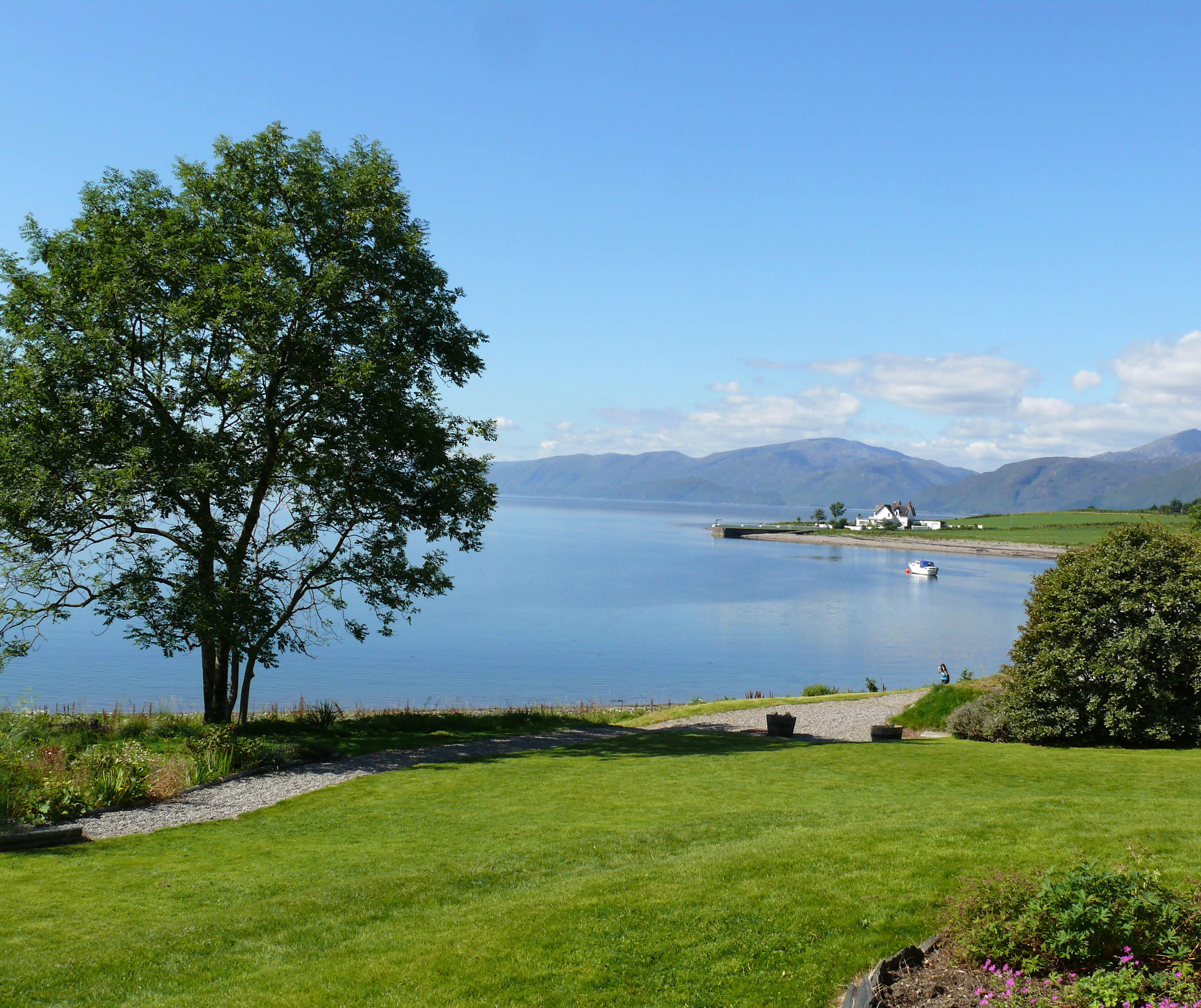 The shores of Loch Linnhe at Onich, Scotland.